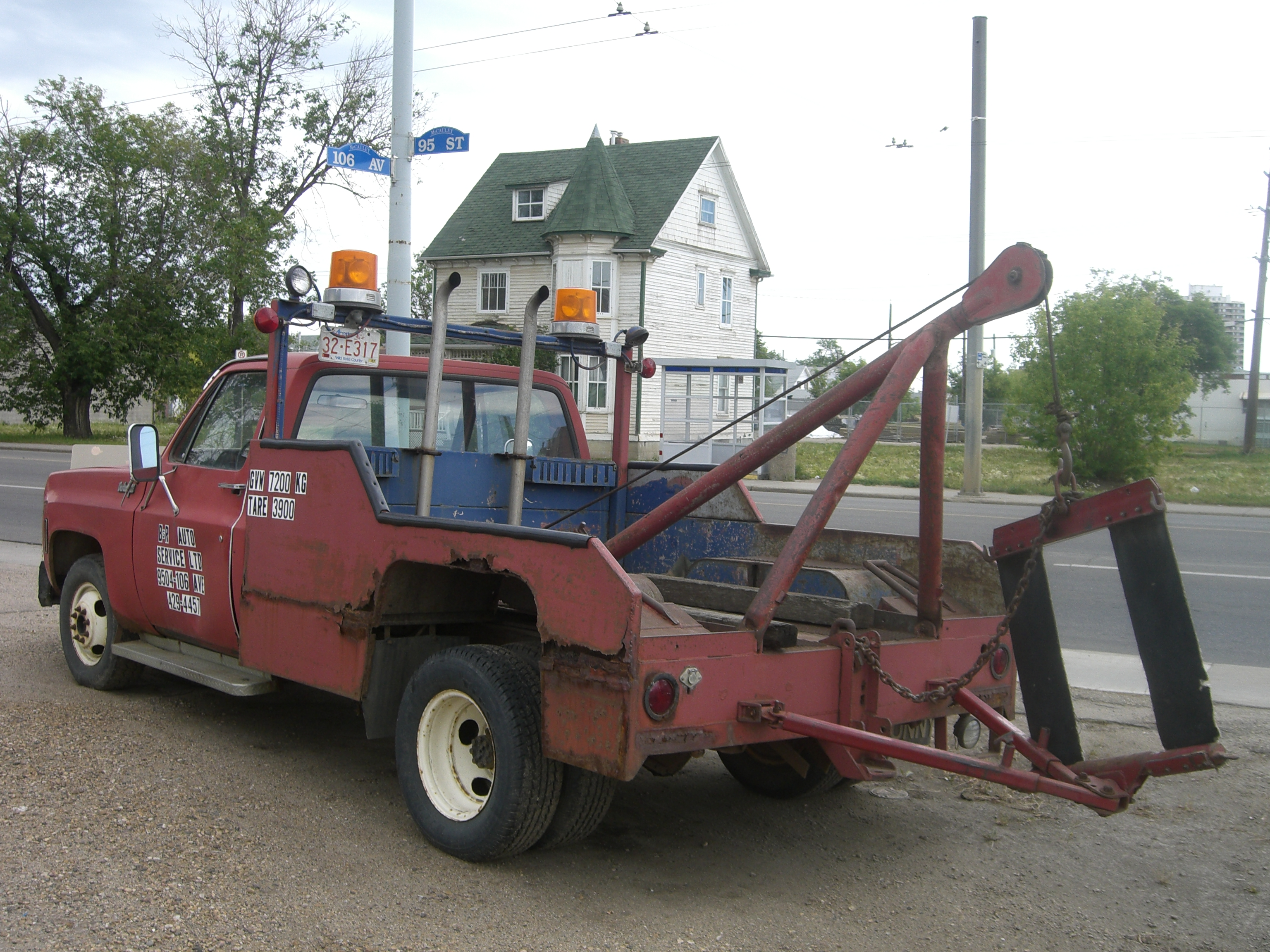 1980s style tow truck in use in Edmonton, Alberta, Canada.